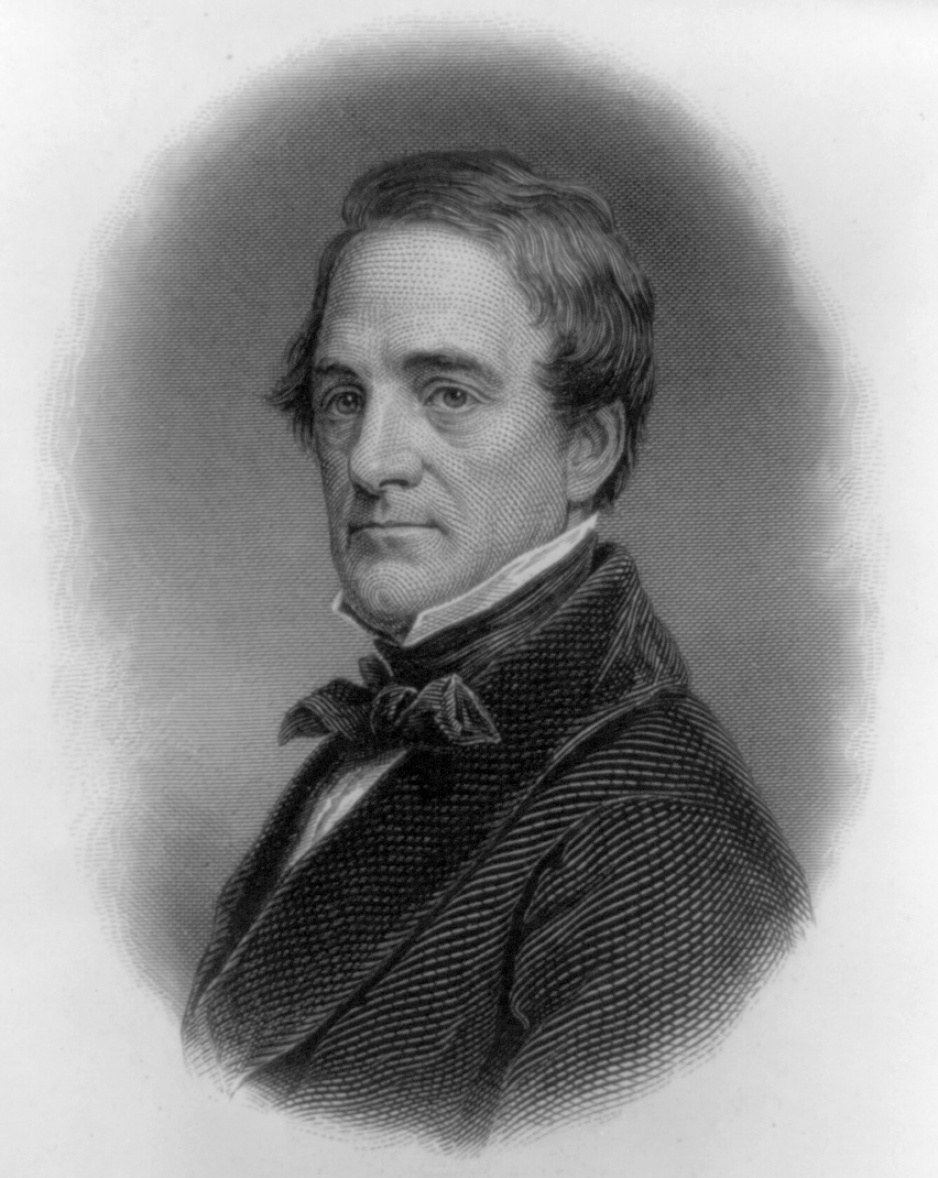 John C. Spencer, U.S. Secretary of the Treasury